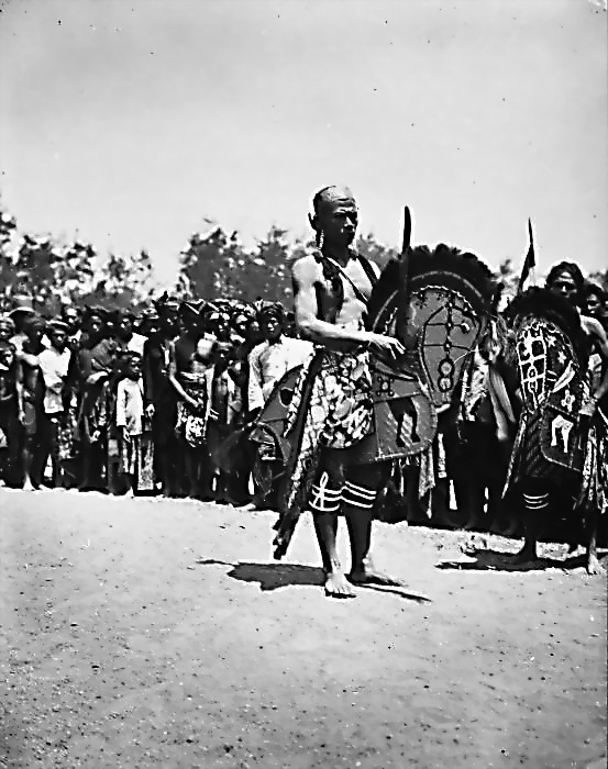 Dance members of the Kuda-Kepang in Mataram, Lombok